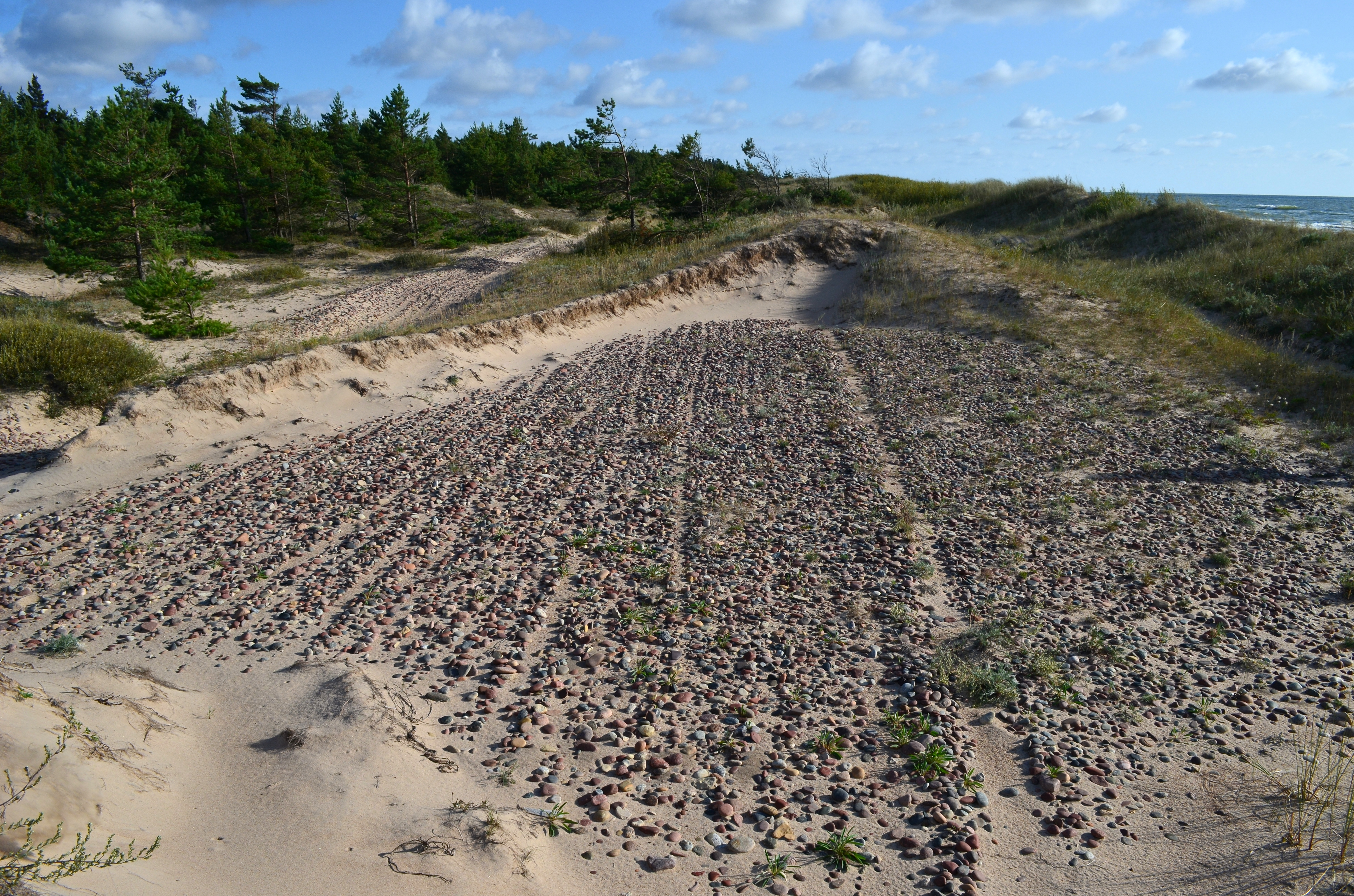 The Baltic seaside